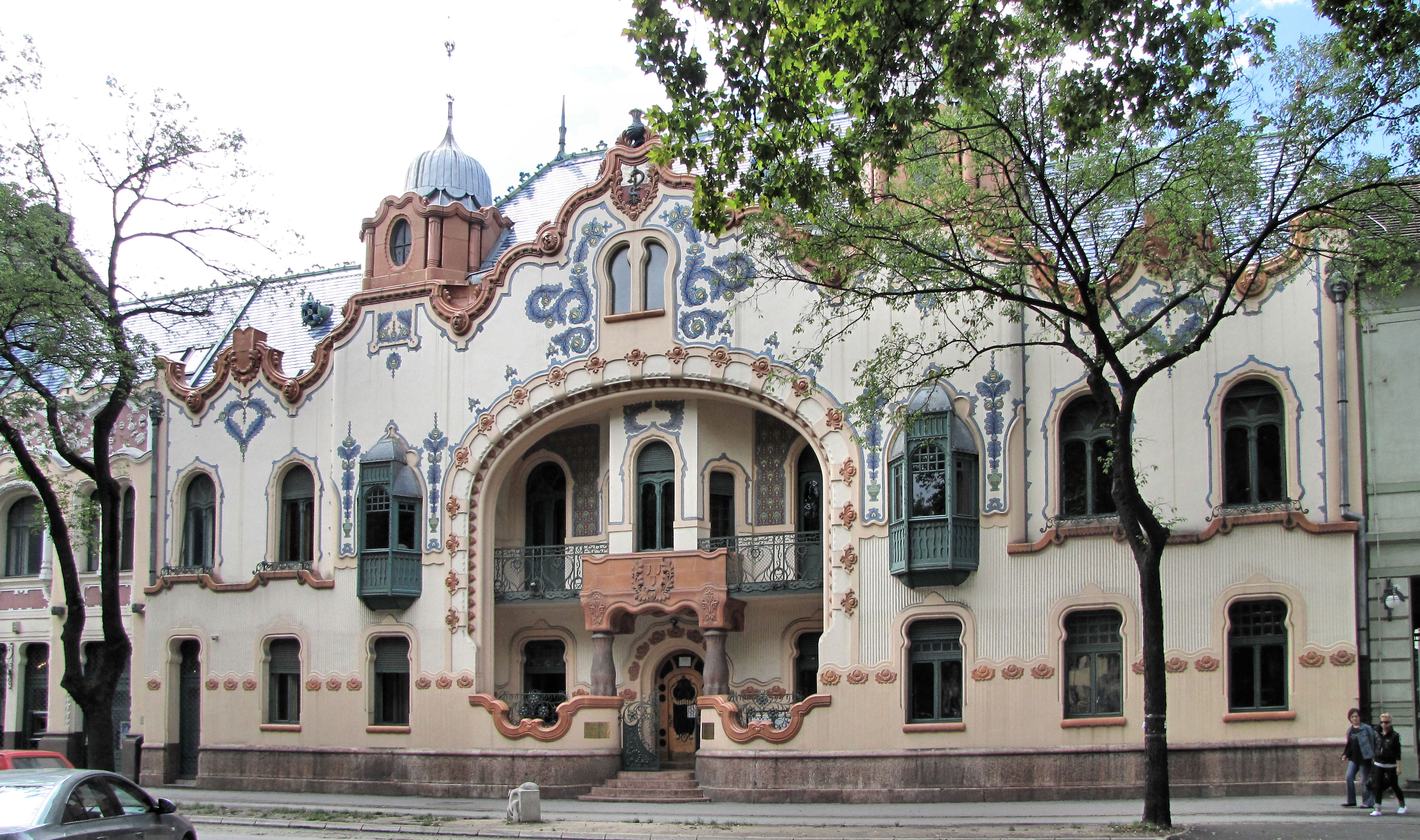 Raichle Palace, Subotica, Serbia. Built in 1904 by Ferenc Raichle (Raichl) to himself.